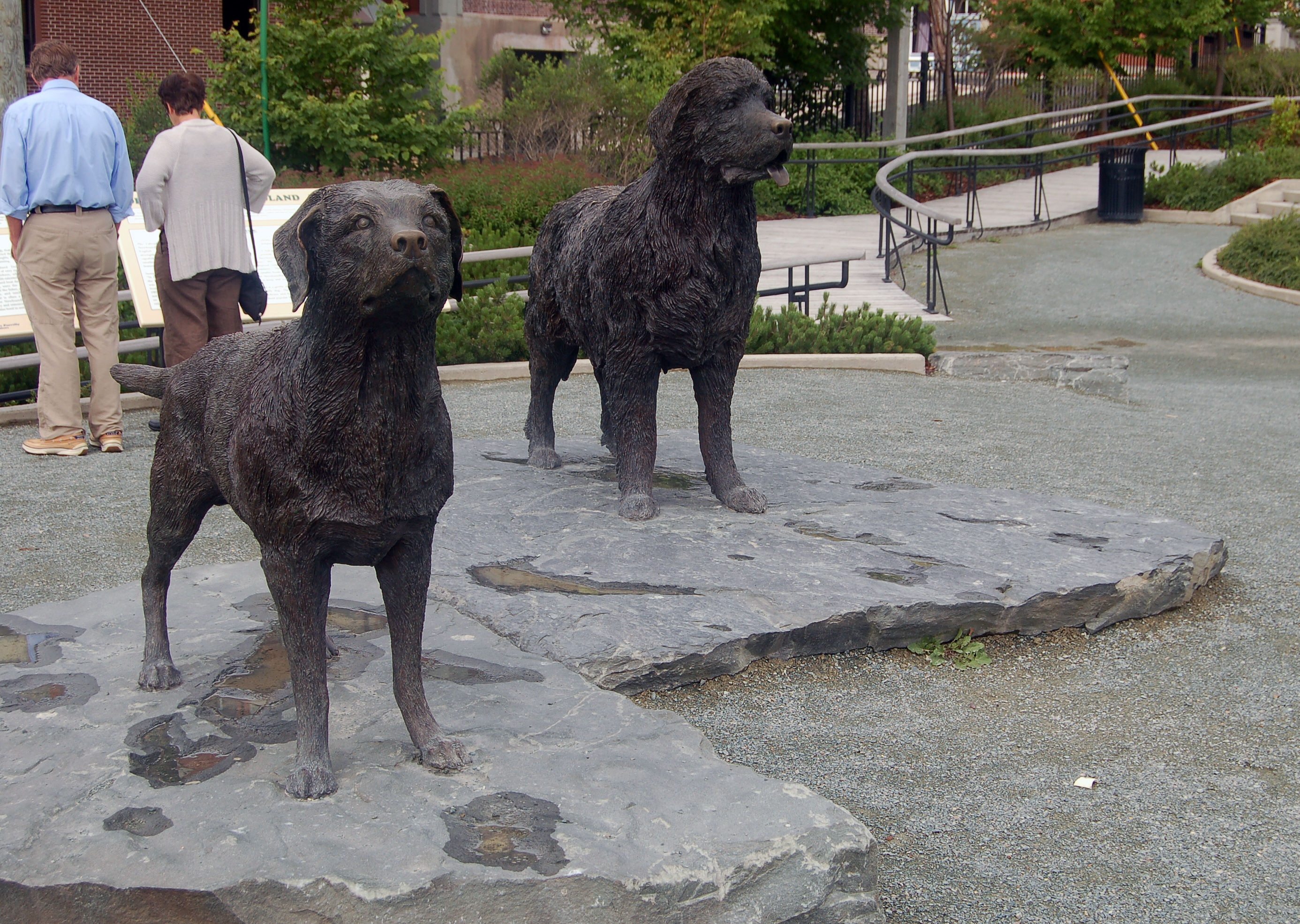 Statues of a Newfoundland and a Labrador (at approx 1.5 times life size), in the Harbourside Park, St John's, Newfoundland.